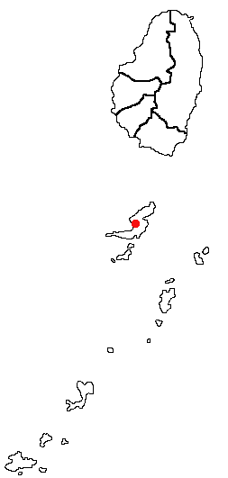 Port Elizabeth, Saint Vincent and the Grenadines Location Map; created with the GIMP.